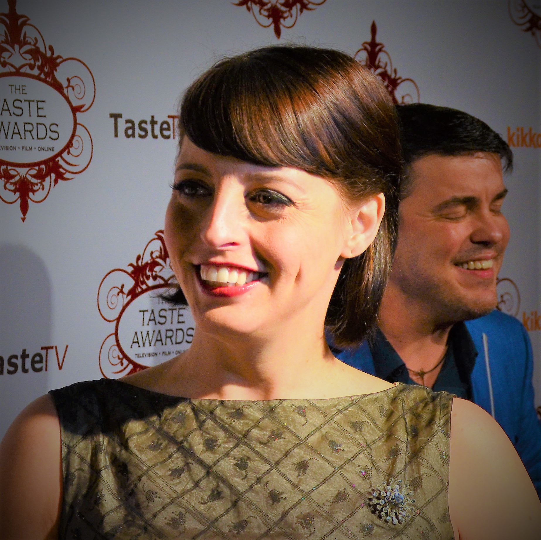 Alie Ward & Georgia Hardstark at the 6th Annual Taste Awards honoring the best in food and wine at the Egyptian Theater in Hollywood.